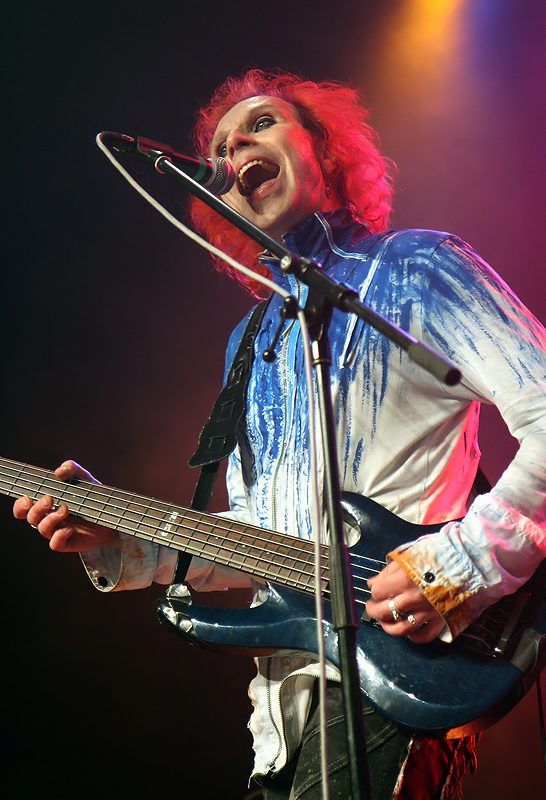 Waltari in Palac Akropolis, Prague 3